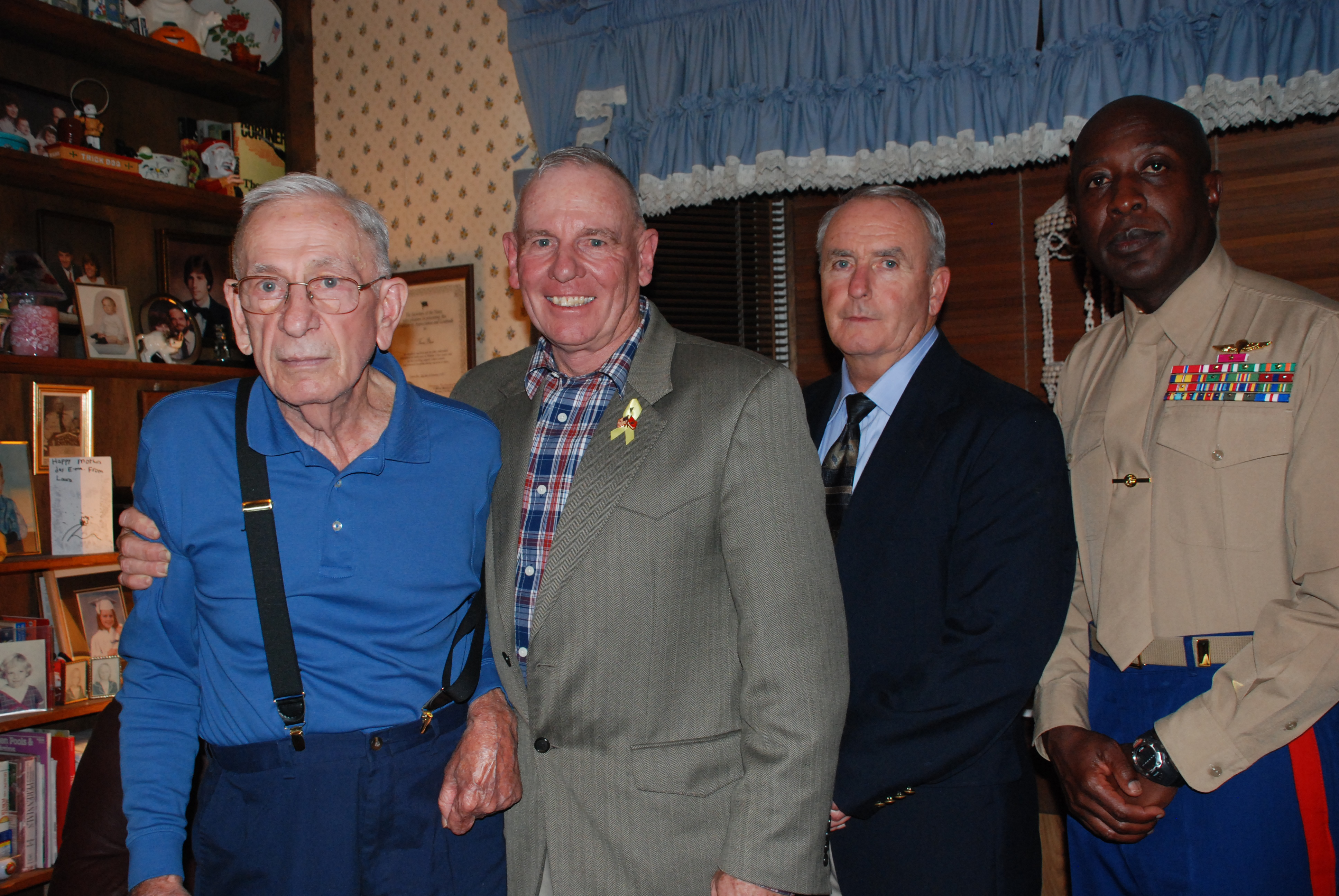 Former Sgts. Maj. of the Marine Corps Henry H. Black, 7th SMMC; Harold G. Overstreet, 12th SMMC; Gary Lee, 13th SMMC; and the current SMMC, Carlton W. Kent, the 16th. Overstreet, Lee and Kent made a trip to Black’s home, with about 15 other Marines and family members, in Fredericksburg, Va., to ensure Black had a Marine Corps birthday celebration on Nov. 10, 2010.